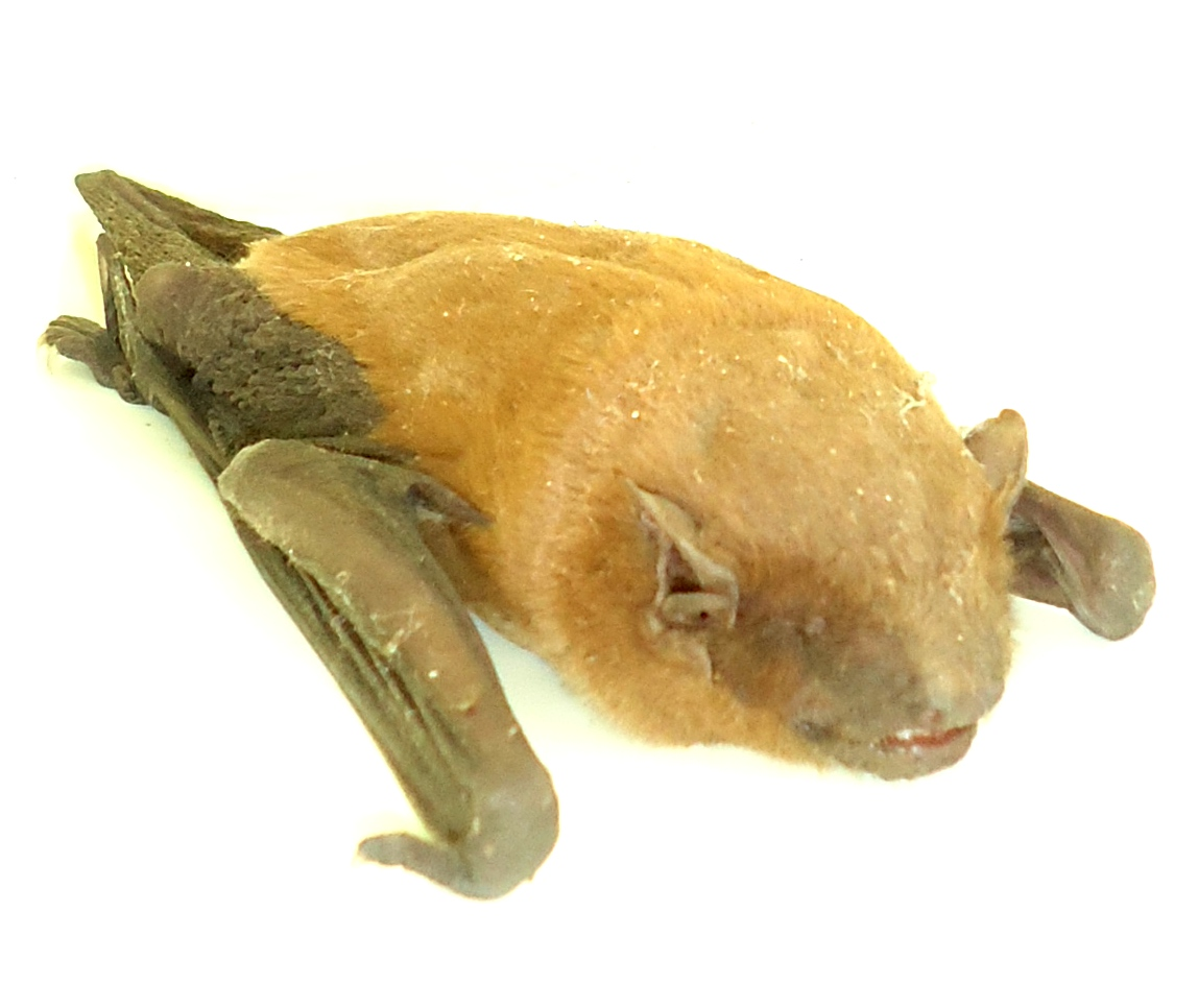 The Lesser Asiatic Yellow Bat (Scotophilus kuhlii) from Bukidnon, Philippines. A vesper bat commonly found roosting in eaves and rafters of houses and other human structures.